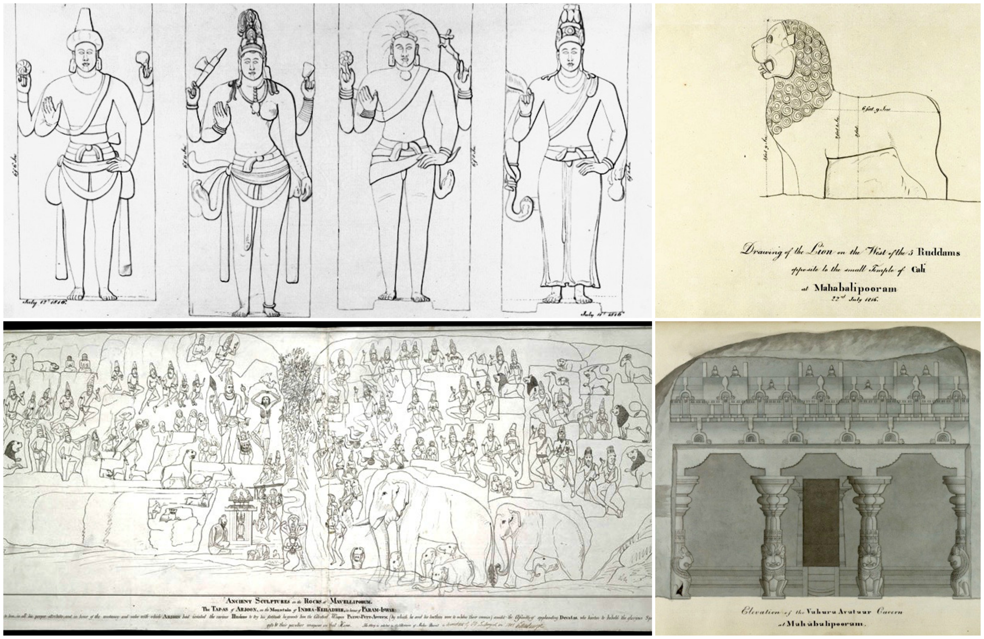 Derivative work on the following wikimedia commons files: 19th century sketch of relief at a ratha Mamallapuram monument, Tamil Nadu India.jpg 19th century sketch of lion at Durga ratha Mamallapuram monument, Tamil Nadu India.jpg 19th century sketch of Descent of the Ganges Arjuna Penance Mamallapuram monuments, Tamil Nadu India.jpg 19th century sketch of Varaha Avatar Cave temple Mamallapuram monuments, Tamil Nadu India.jpg